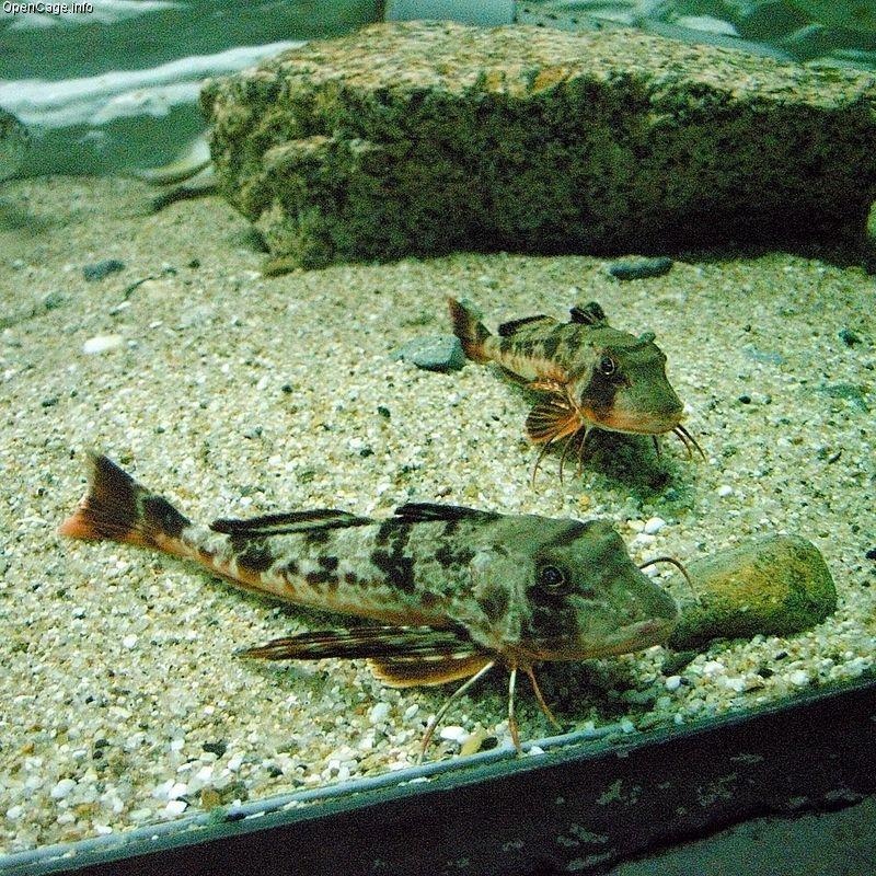 ホウボウ Red Gurnard (Chelidonichthys spinosus)